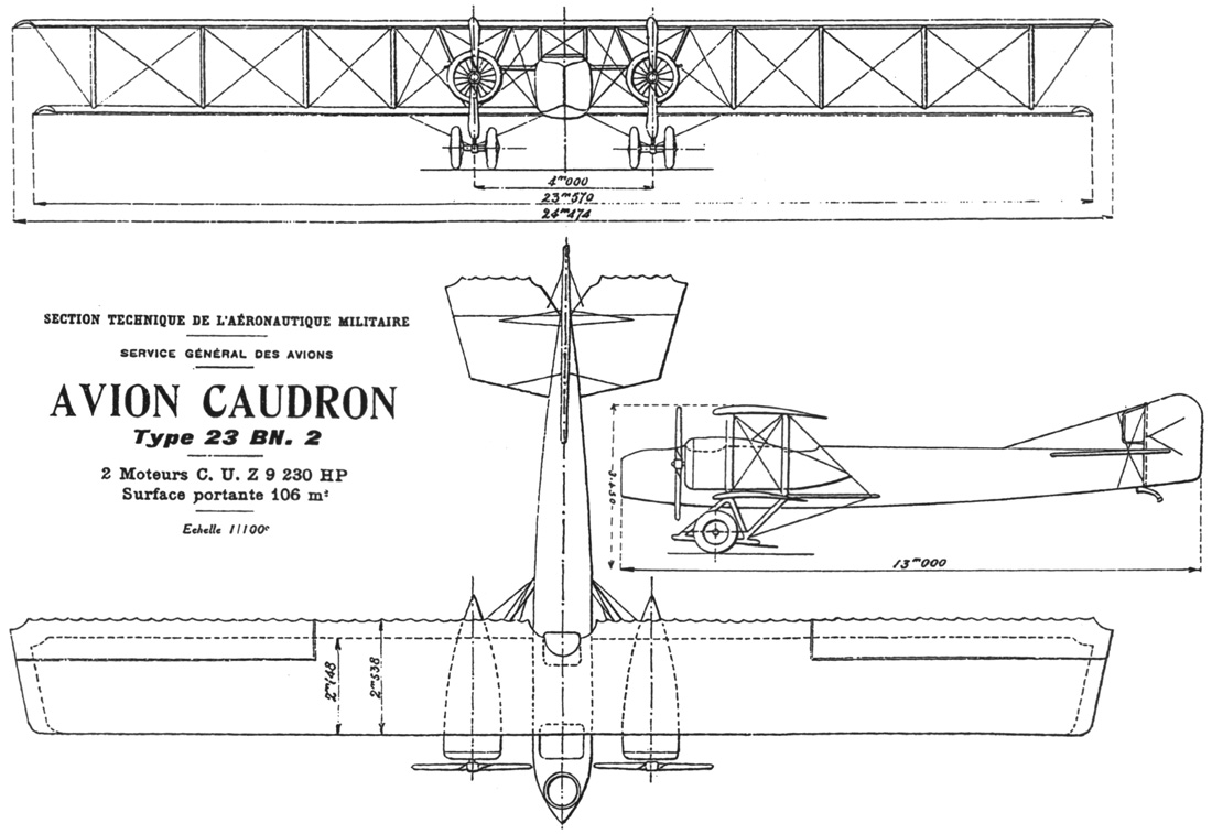 Caudron C.23 Bn.2 French two seat night bomber